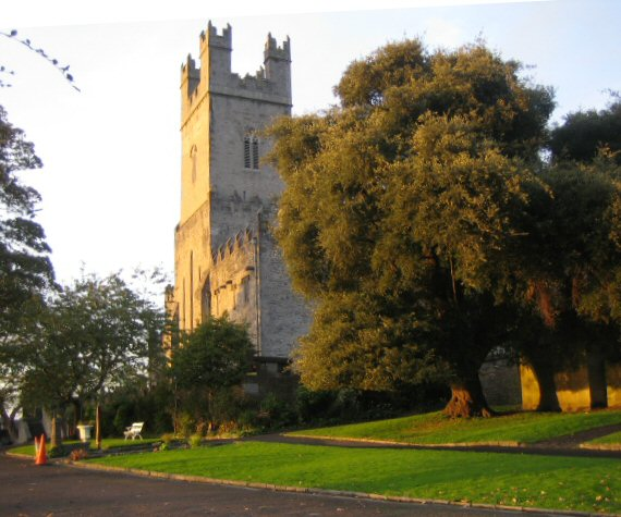 St. Mary's Cathedral, Limerick, 29 October 2005